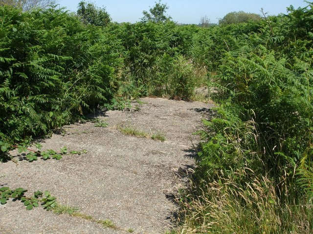 Walberswick station site - Southwold railway The base of the small station that stood here, once served by the Southwold railway (Southwold to Halesworth, a distance of 9 miles). There was a small urinal and booking office. Pictured in detail in 'Branchline to Southwold' by Middleton Press.